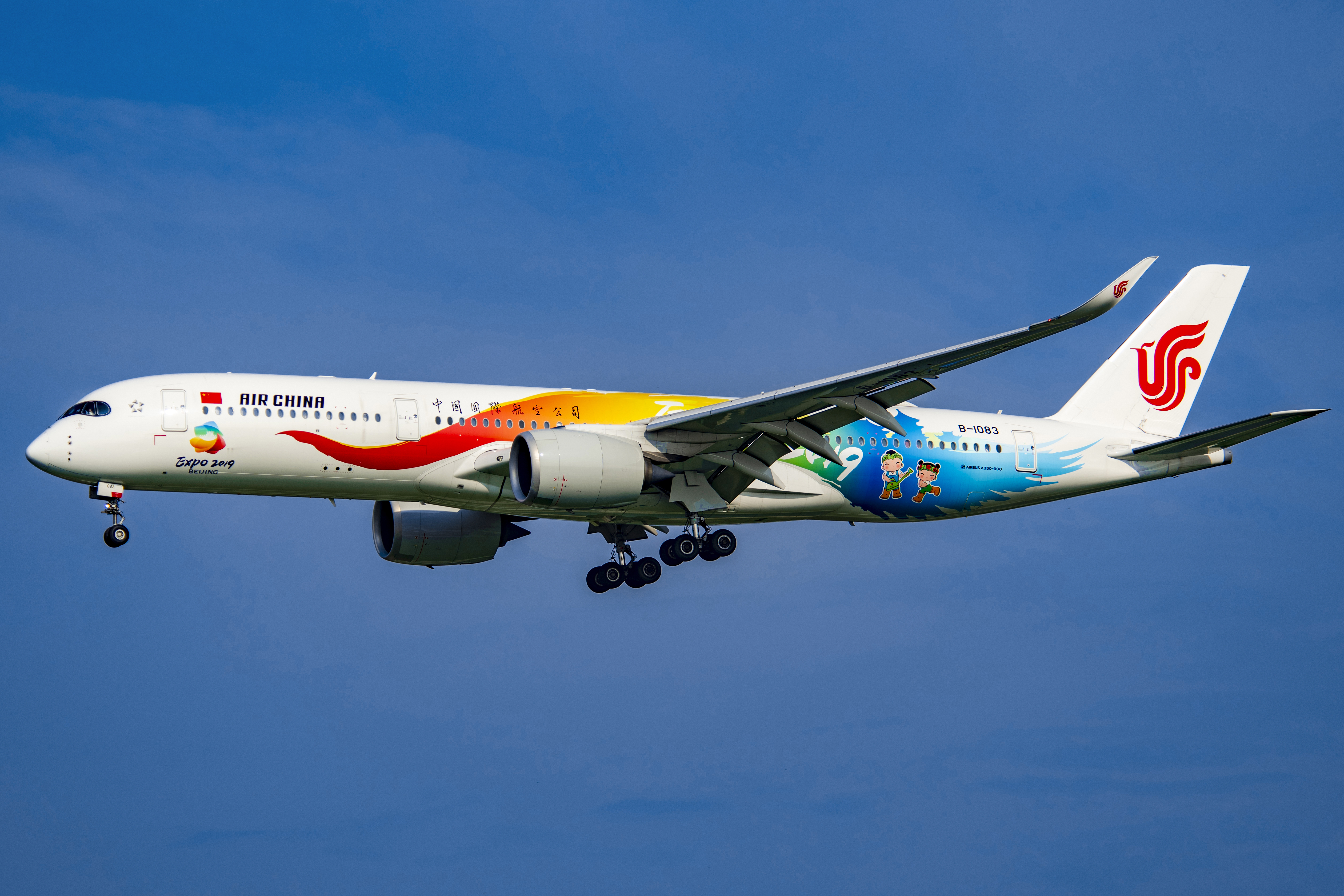 Air China 1502 from Shanghai Hongqiao, delayed by thunderstorm.